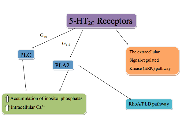 A model that shows the effects of 5-HT2C receptors.